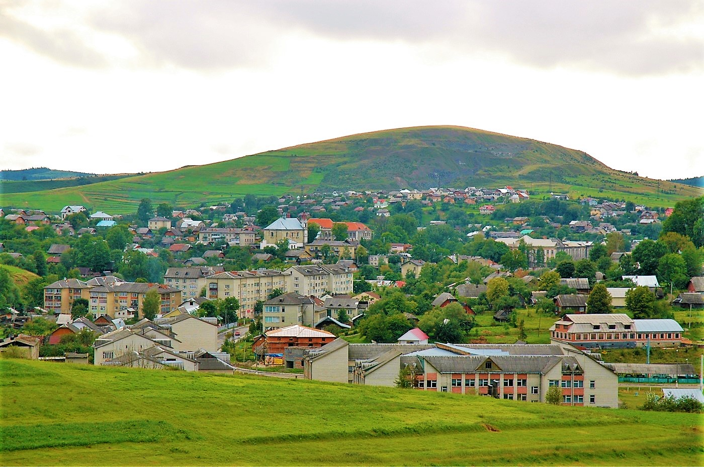 Panoramic view of Turka (Lvivska oblast, Ukraine)